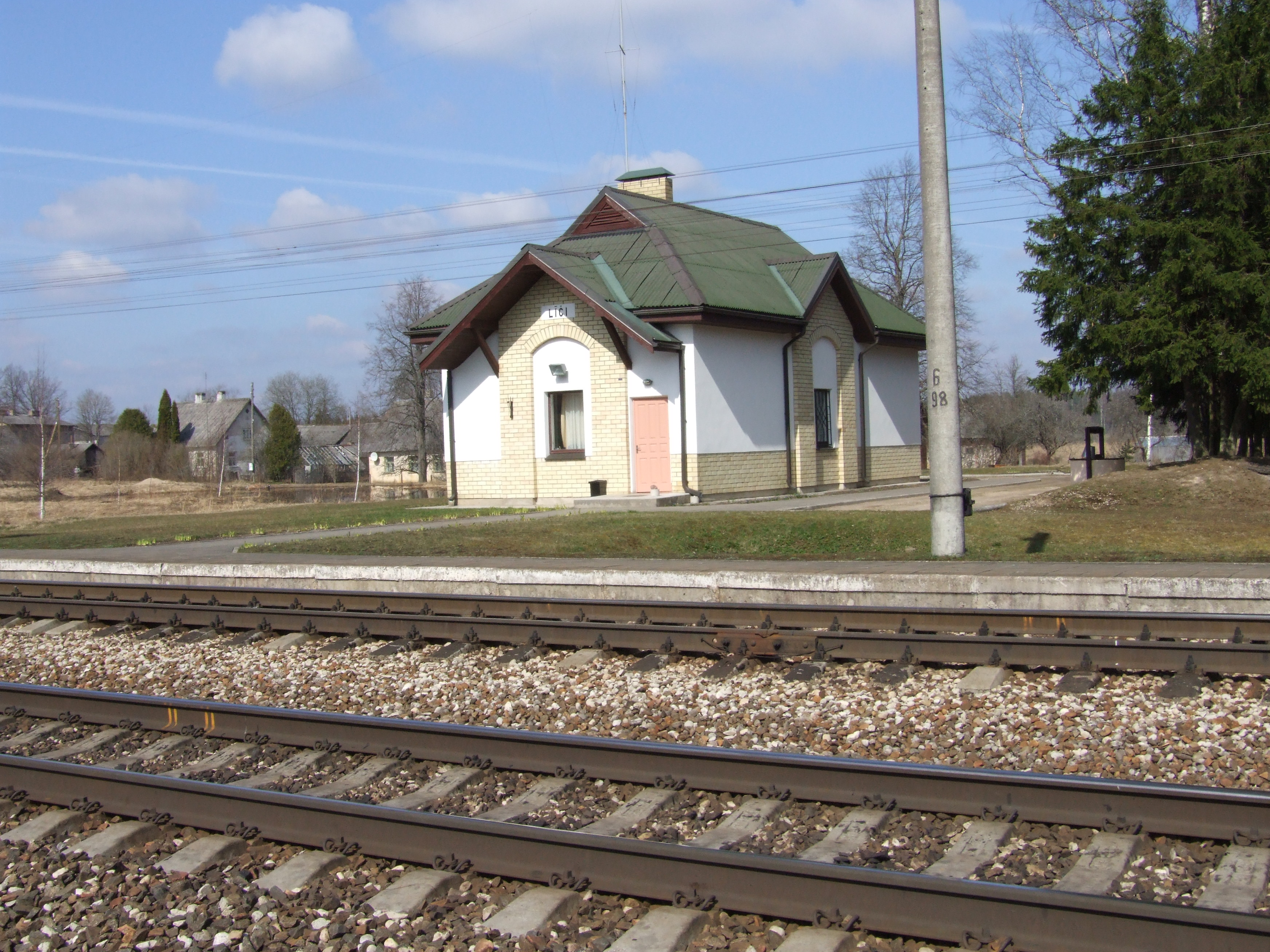 Lichi railway station